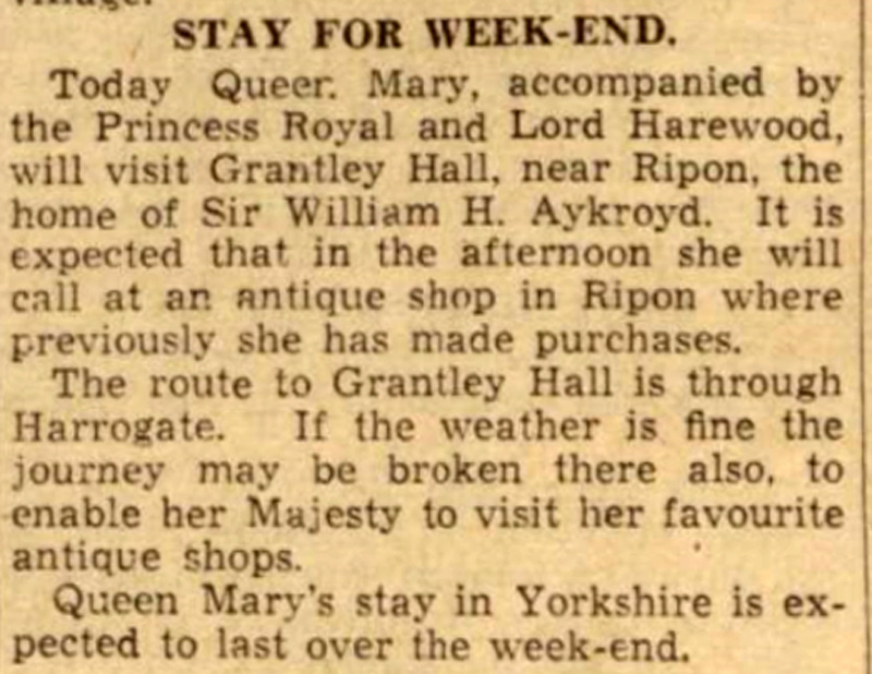 Newspaper article about the visit of Queen Mary to Grantley Hall in 1937